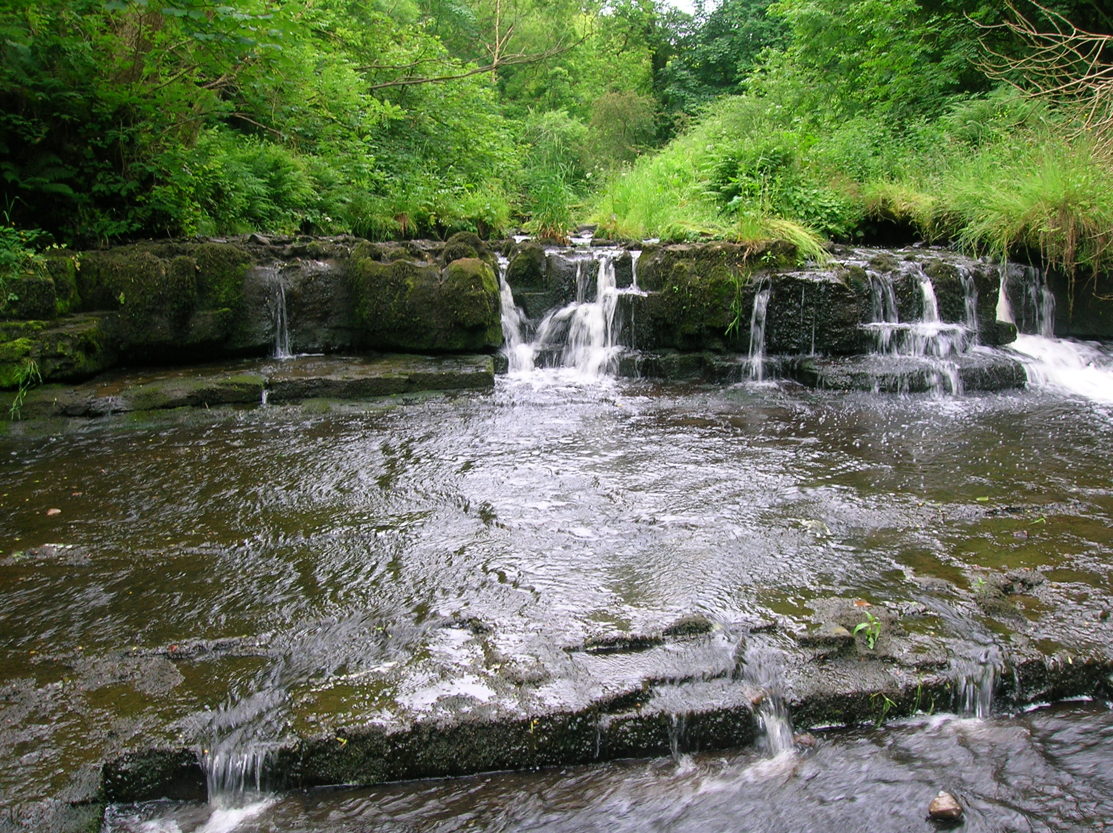 A small spout on the Caaf Water in Lynn Glen. A fossiliferous limestone with many rock-cut basins.